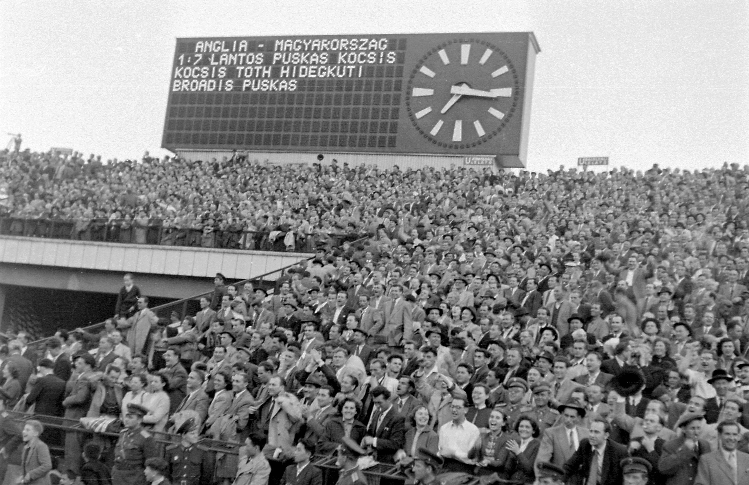 Hungary and their Golden Team defeated England 7-1, their heaviest ever defeat